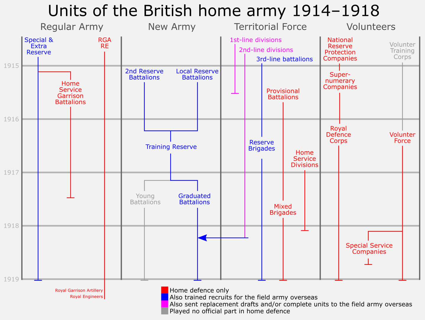 The variety of different units allocated to the British home army in the period 1914–1918